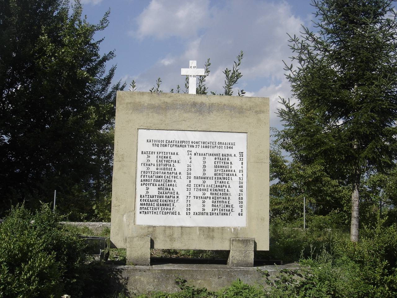 War memorial for nazi victims in Elatohori, Greece.